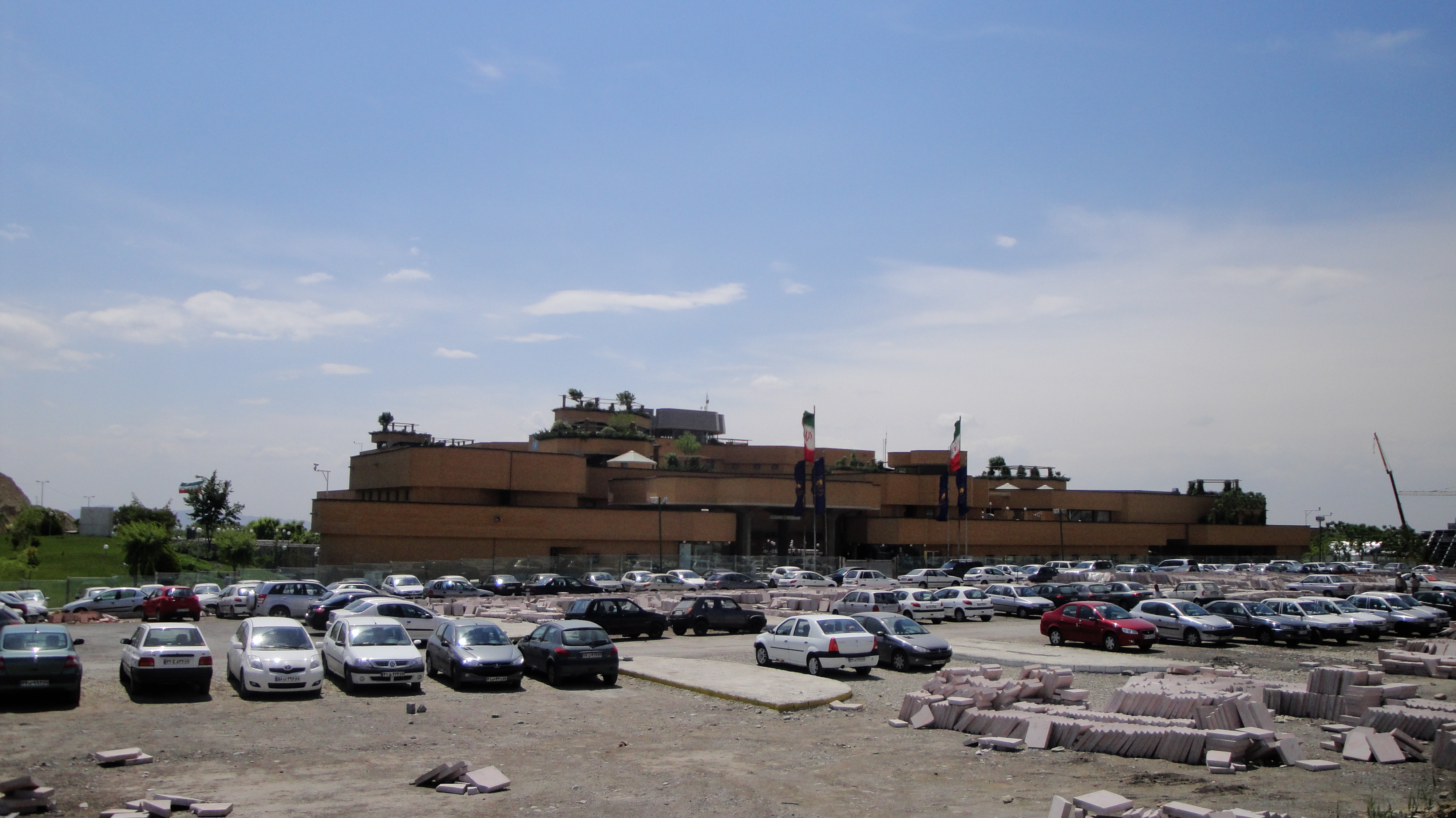 National Library of Iran, 2013! The view north to south